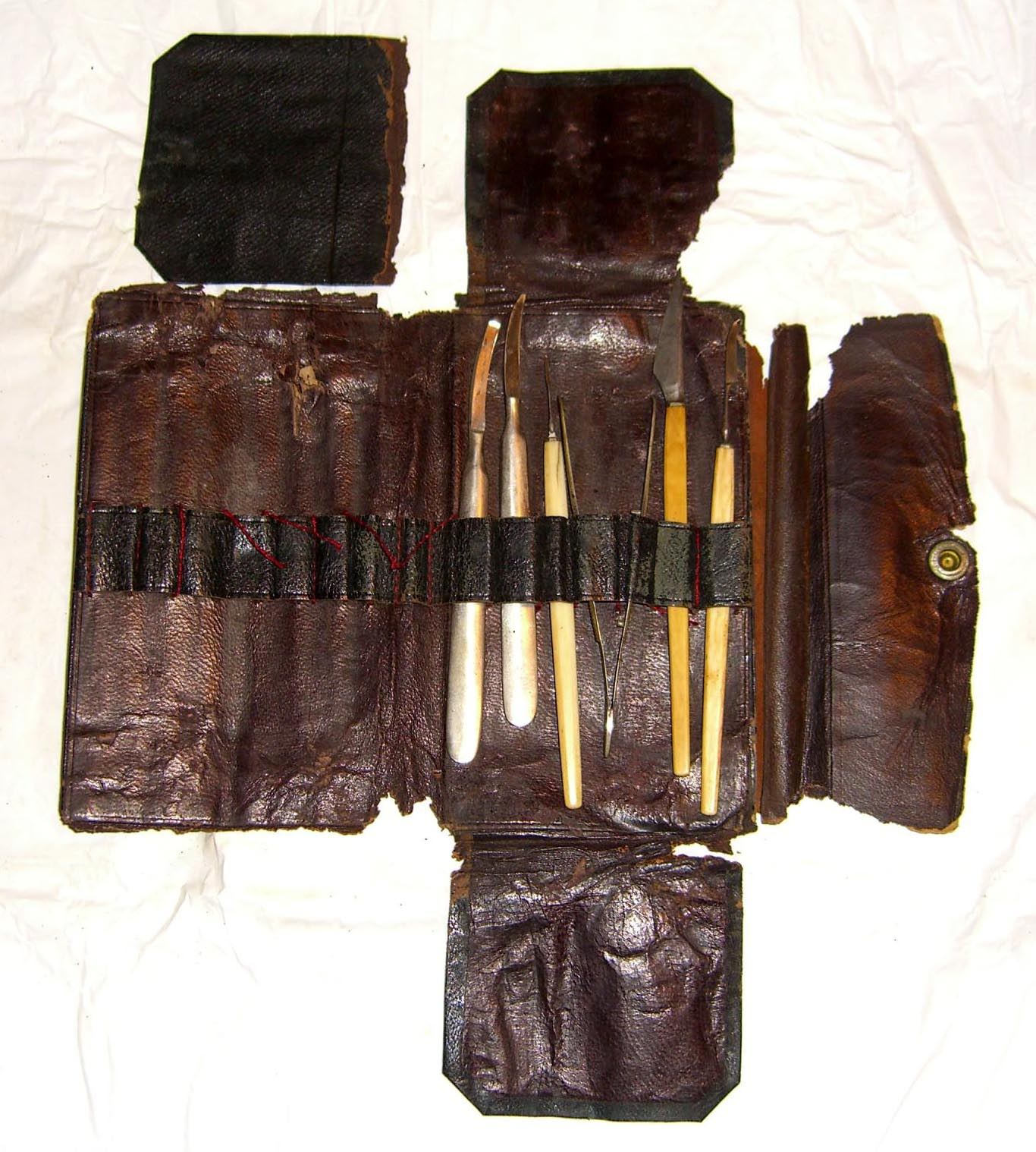 Taxidermy tool kit formerly owned by 19th century taxidermist John Graham Bell, who worked as a personal assistant to orinthologist John James Audubon, and taught taxidermy to Theodore Roosevelt, as seen on May 5, 2012. Today the kit is owned by Union City taxidermist John Janelli, Vice Presdient of the National Taxidermists Association. (Source) The three tools on the right feature ivory handles. This photo was created by Luigi Novi. It is not in the public domain, and use of this file outside of the licensing terms is a copyright violation.